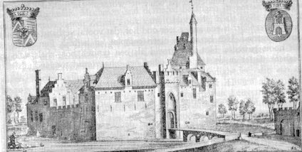 The castle of Relegem seen in 1694